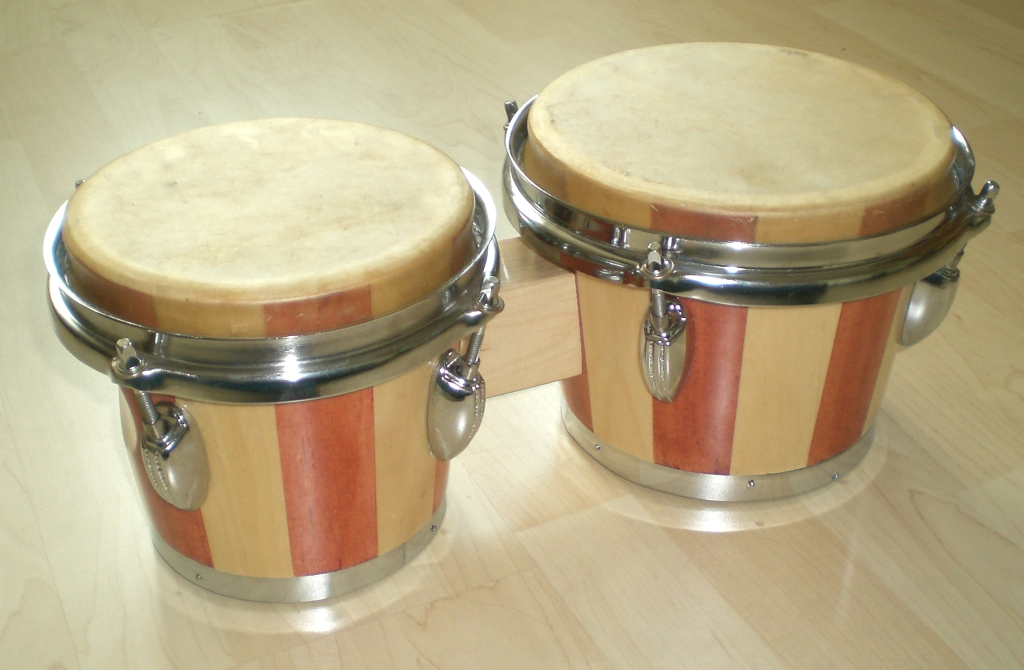 Bongos (Percussion - Perkussionsinstrument)